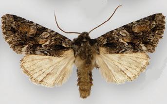 Anhypotrix tristis male